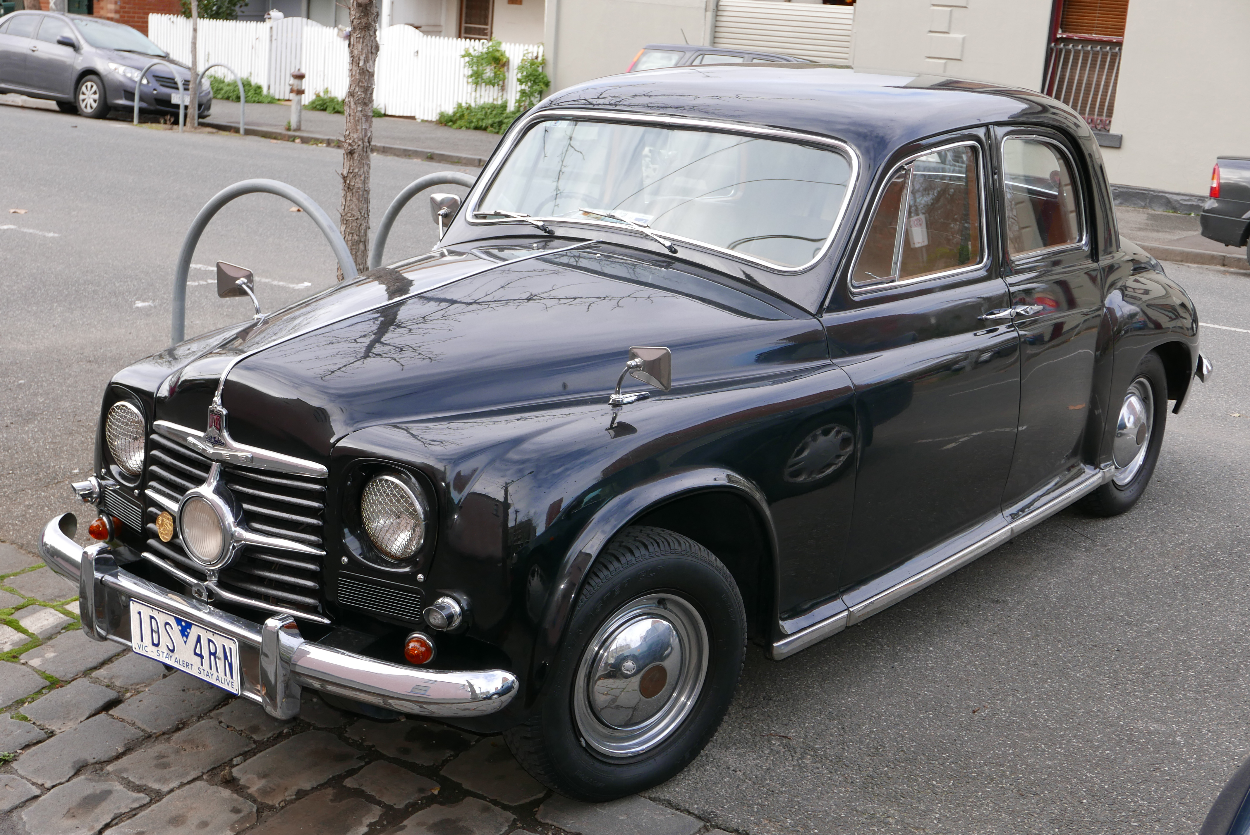 1951 Rover 75 (P4) sedan. Photographed in Carlton, Victoria, Australia. Vehicle registration enquiry results Jurisdiction Victoria Registration 1DS4RN Chassis code PRFRS011165 Engine code 14307192 Compliance date Not available Year of manufacture 1951